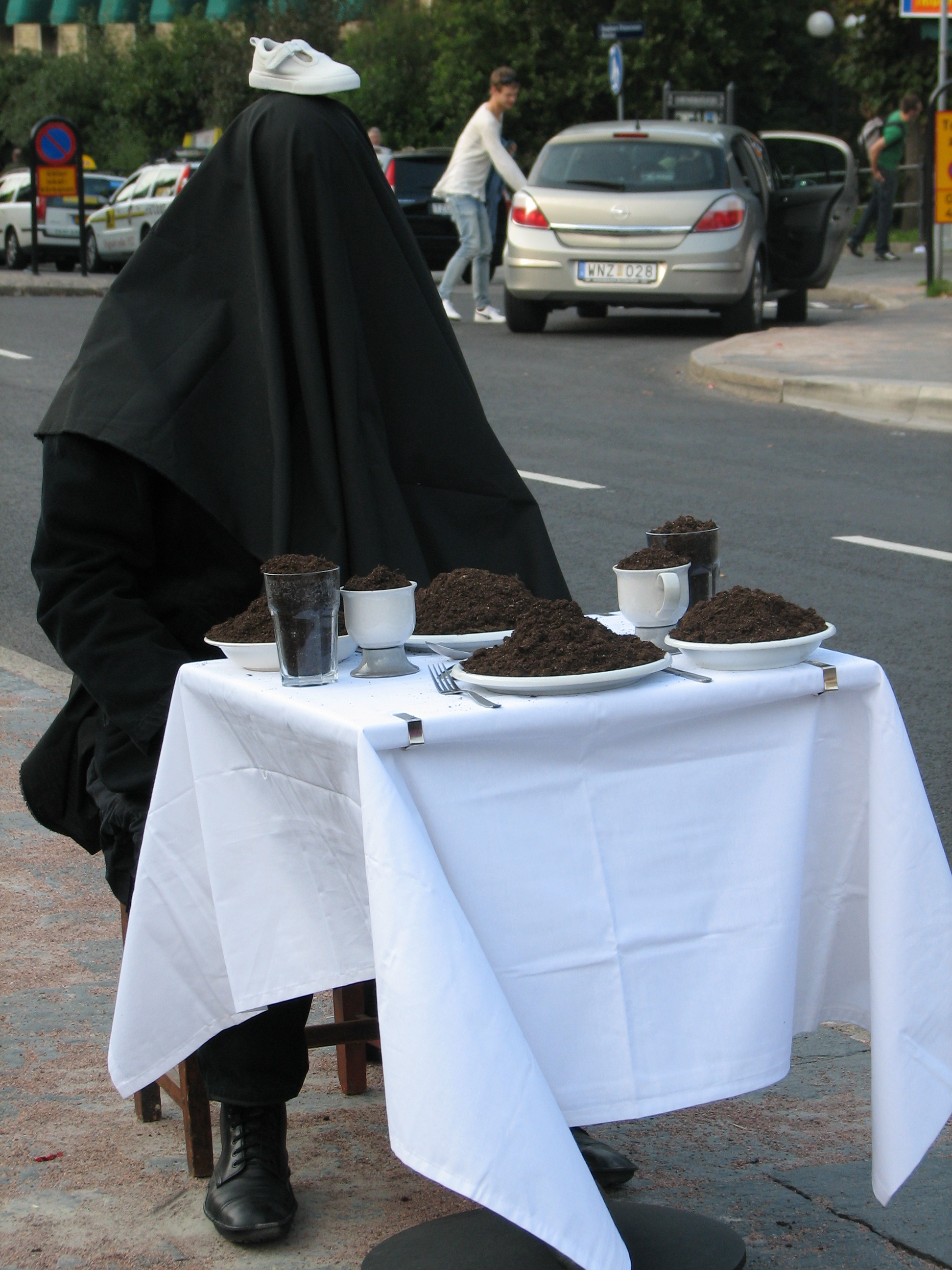 Performance art by (and with) Alastair MacLennan at the performance festival Live Action Gothenburg in Sweden 2006.